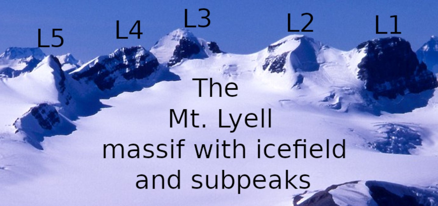 Mt. Lyell and its 5 subpeaks identified: L1 - Rudolph Peak, L2 - Edward Peak, L3 - Ernest Peak, L4 - Walter Peak and L5 - Chistian Peak. Note that Mt. Columbia is directly behind L3, making it look much larger than it is. This shot is as seen from the summit of Mt. Forbes.